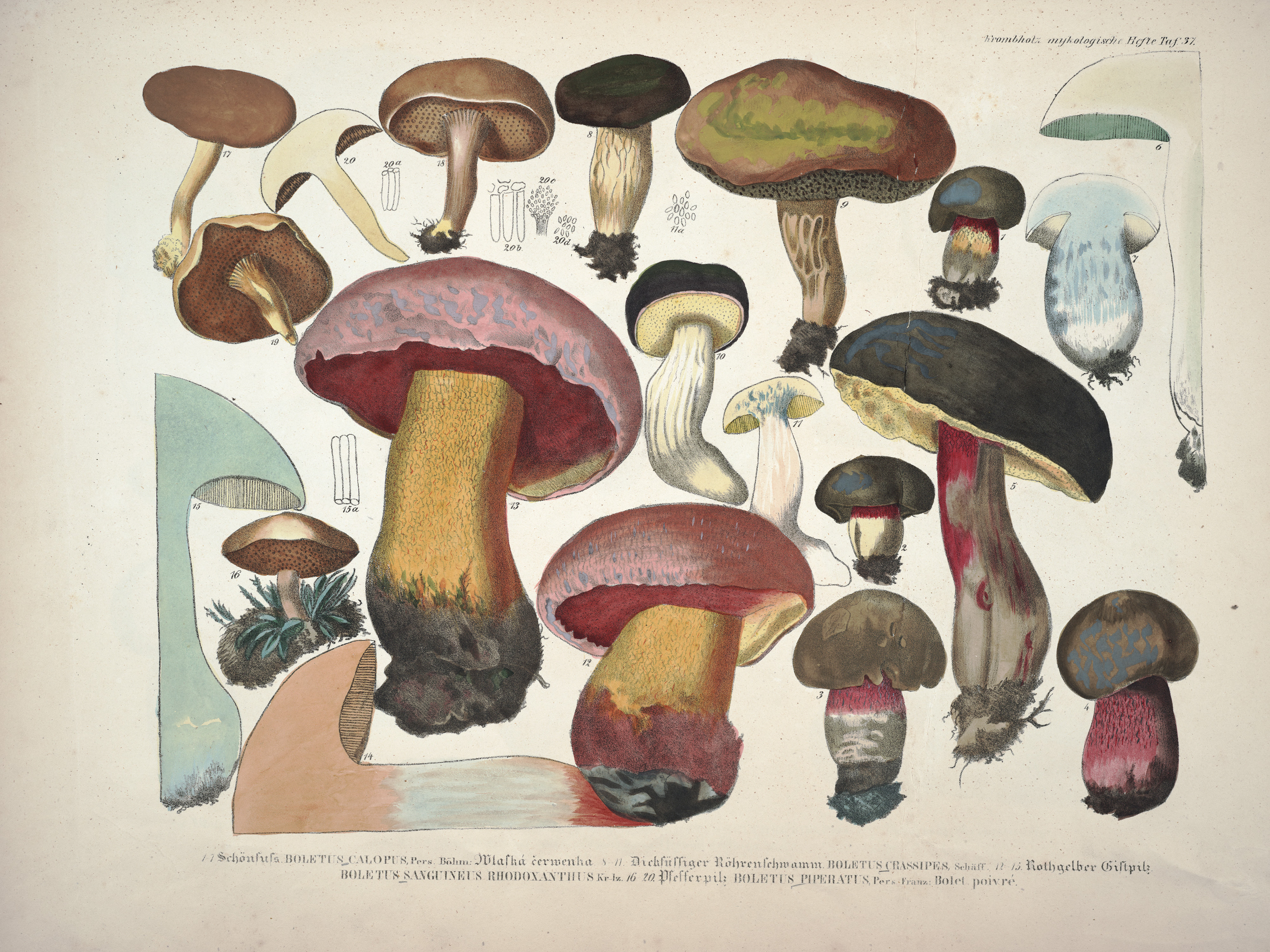 Krombholz mykologische Hefte Taf. 37; Naturgetreue Abbildungen und Beschreibungen der essbaren, schädlichen und verdächtigen Schwämme (Praga, 1831-1846)